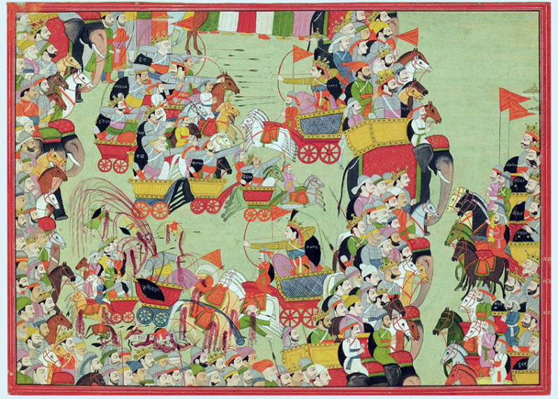 Object ID: F2003.34.16.2 Designation: The Pandavas' nephew Abhimanyu battles the Kauravas and their allies, from a manuscript of the Mahabharata Date: approx. 1800-1900 Medium: Opaque watercolors on paper Place of Origin: India Himachal Pradesh state former kingdom of Kangra Credit Line: Gift of Mr. Johnson S. Bogart Label: At one point in the great battle of the Mahabharata, the Kauravas gather their army into a large, impenetrable circular formation. When Abhimanyu plans to break into the formation, the Pandavas and their allies promise to follow him, providing assistance and protection. Once Abhimanyu penetrates the enemy force, however, King Jayadratha and his army prevent the Pandavas from coming to their kinsman's aid. Abhimanyu, though he fights valiantly and slays many opponents, is eventually killed. Here he faces a force that includes the Kaurava brothers Duryodhana, Duhshasana, and Vrindaraka, as well as such allies as Karna and Drona. At the right-hand side of the page the Pandavas face a group of warriors led by King Jayadratha, who is seated on an elephant. Jayadratha was able to hold the powerful Pandavas at bay through a favor he received from the Hindu god Shiva. This painting belongs to a dated set from a north Indian princely state that illustrates the Abhimanyu episode. On display: no Collection: PAINTING Dimensions: H. 12 7/8 in x W. 17 3/4 in, H. 32.7 cm x W. 45.1 cm Department: SA